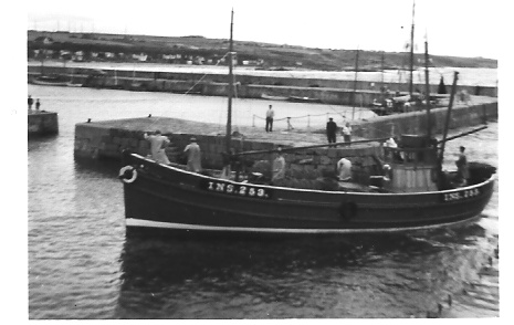 Seine Net Trawler Hopeman 1958. This photo was taken by my brother in 1958 with a Brownie 125!! Fishing as it was and not like the vast industrial ships sailing from North East ports today!